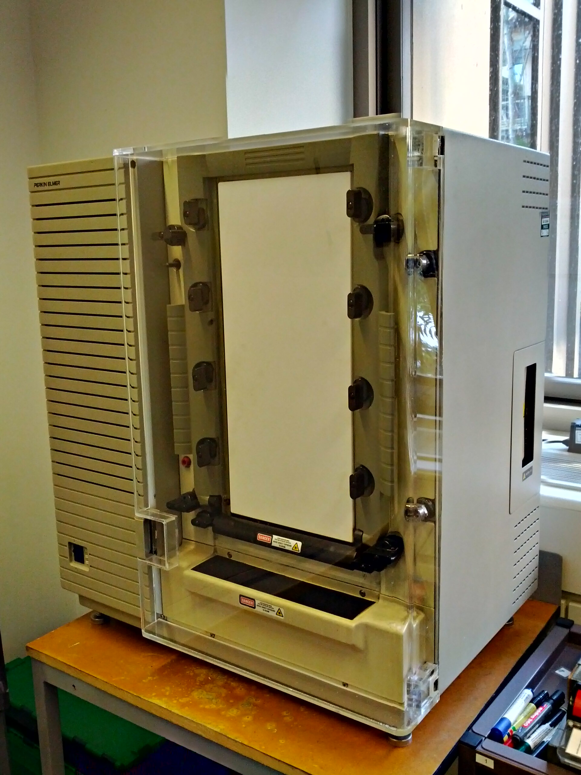 Perkin Elmer 377 Sequencing Machine at the Wellcome Trust Sanger Institute